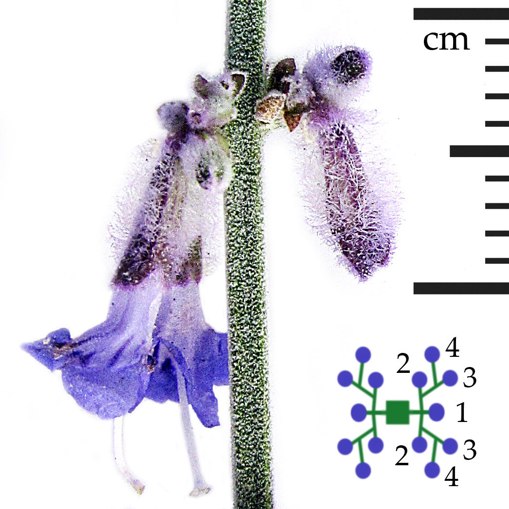 Verticillaster (kind of inflorescence) of Perovskia atriplicifolia